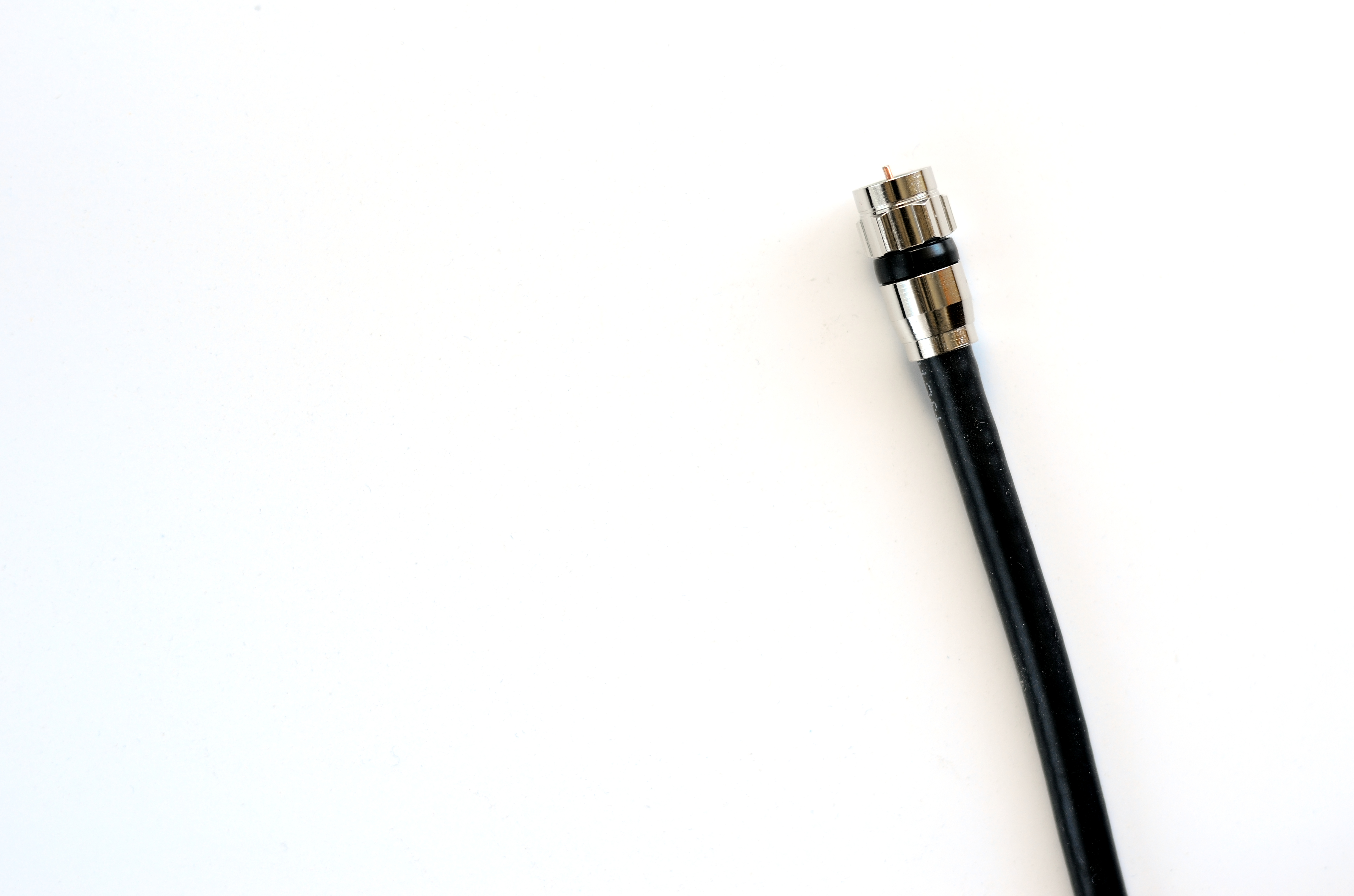 Coaxial cable (cable modem).